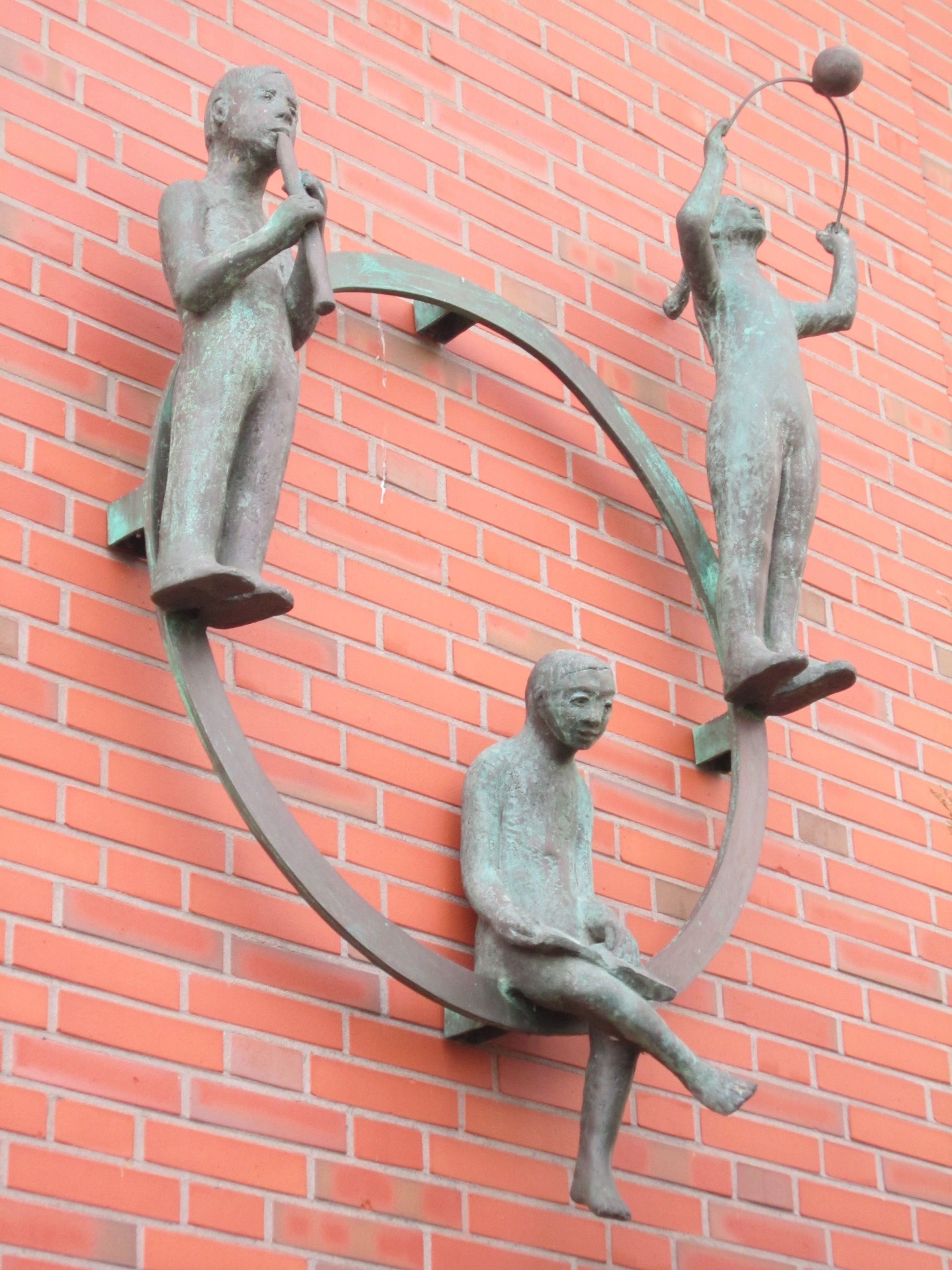 Sculpture "Mythus" ("Myth") by Ulrich Fox at the wall of the Elementary School Damme (Dümmer)